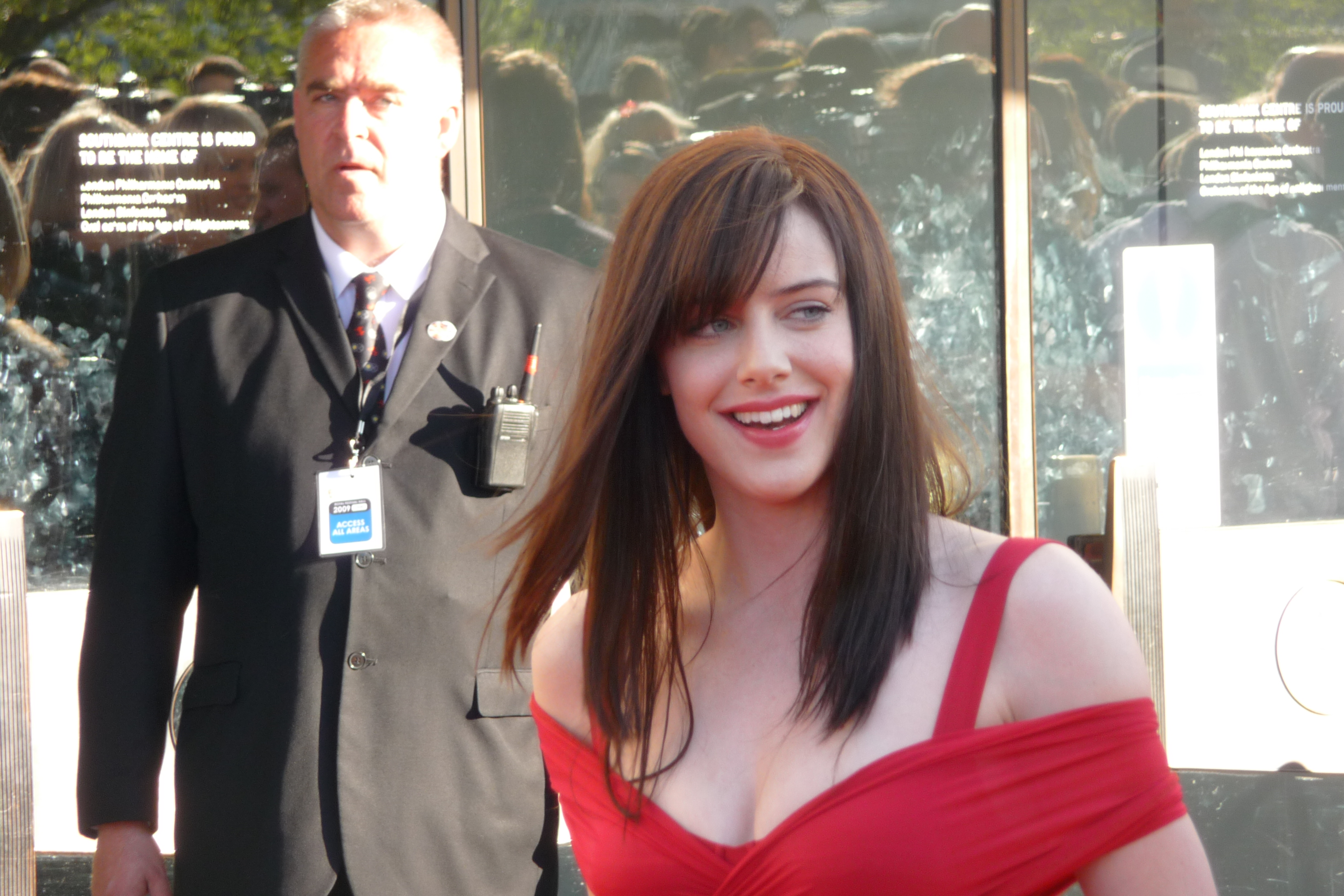 British actress Michelle Ryan at the 2009 BAFTA award ceremony in London.